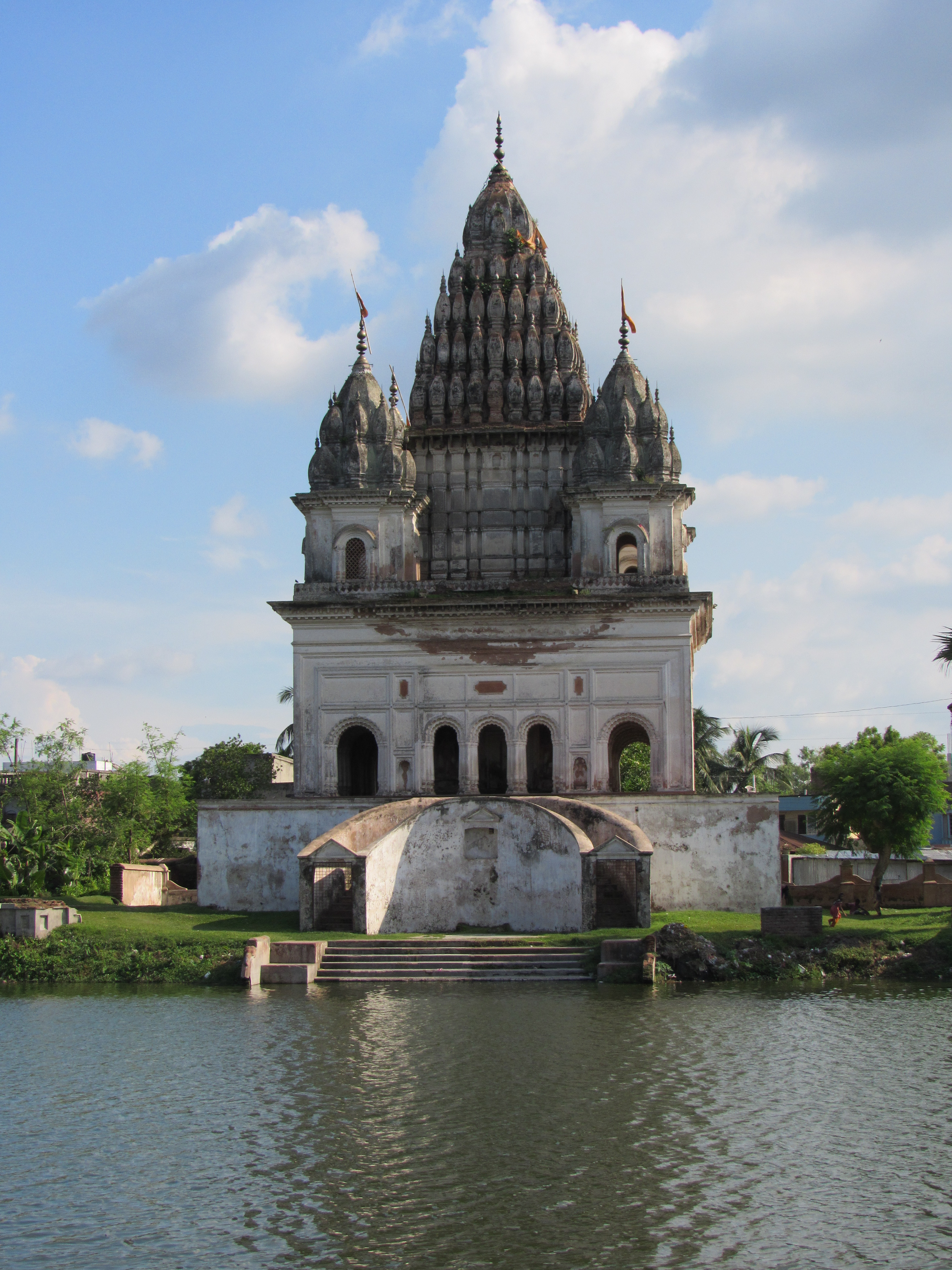 The Bhubaneshwar Shiva Temple of Puthia is the largest Shiva temple in Bangladesh. It was built in 1823 by Rani Bhubonmoyee Devi.